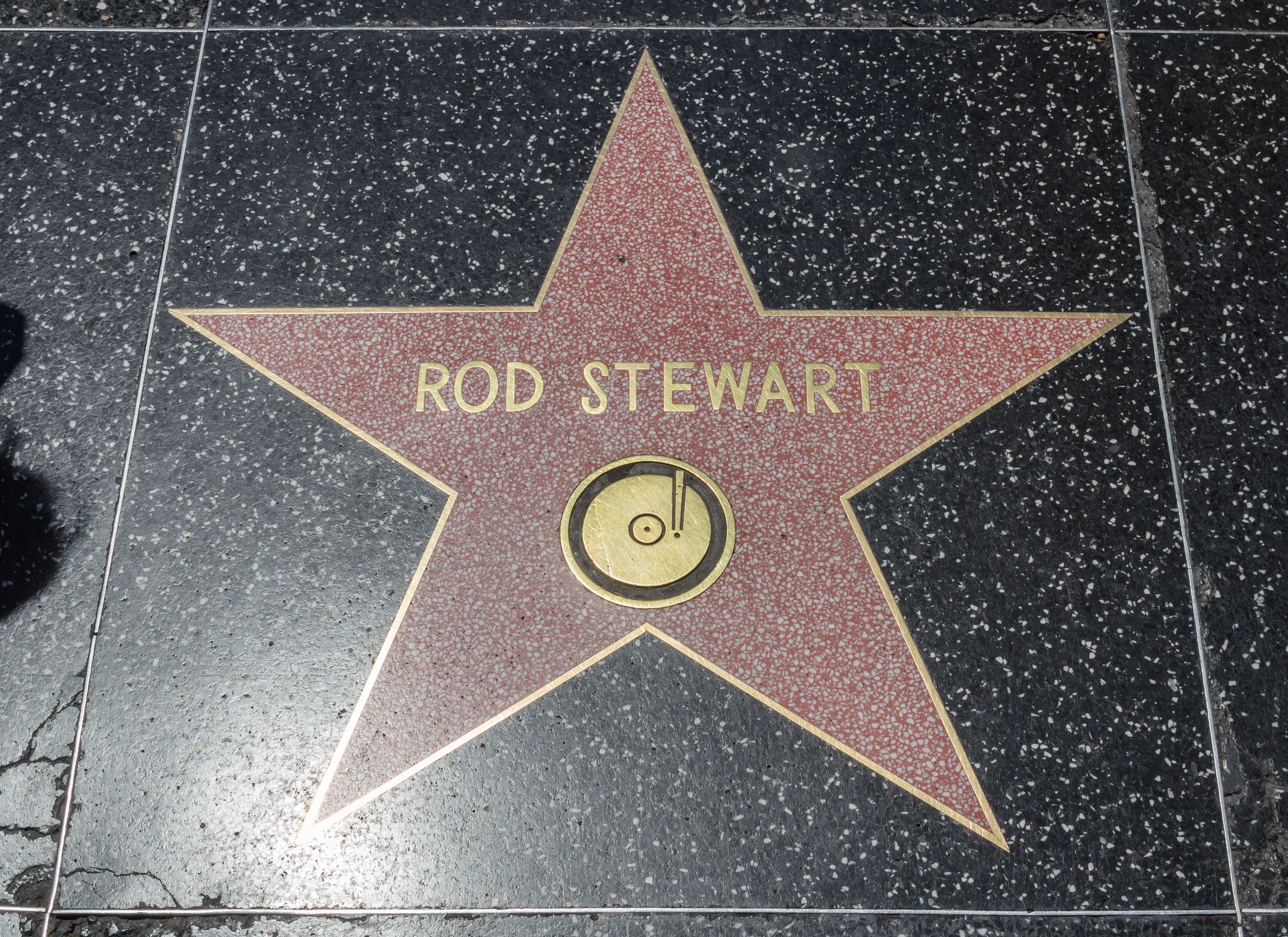 Star “Rod Stewart” at the Hollywood Boulevard in Los Angeles, California, USA